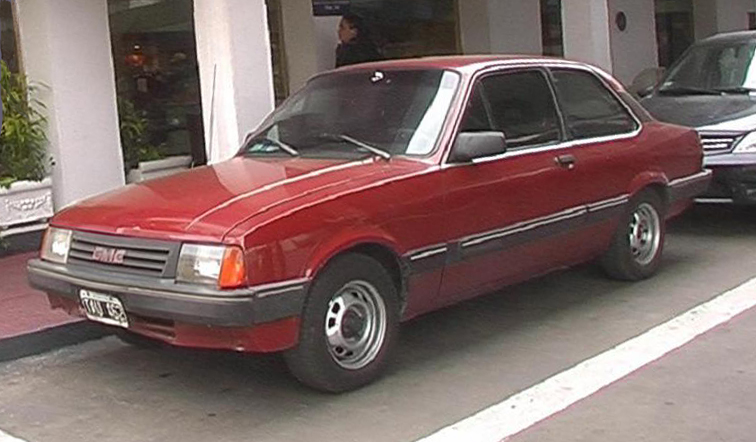 GMC Chevette